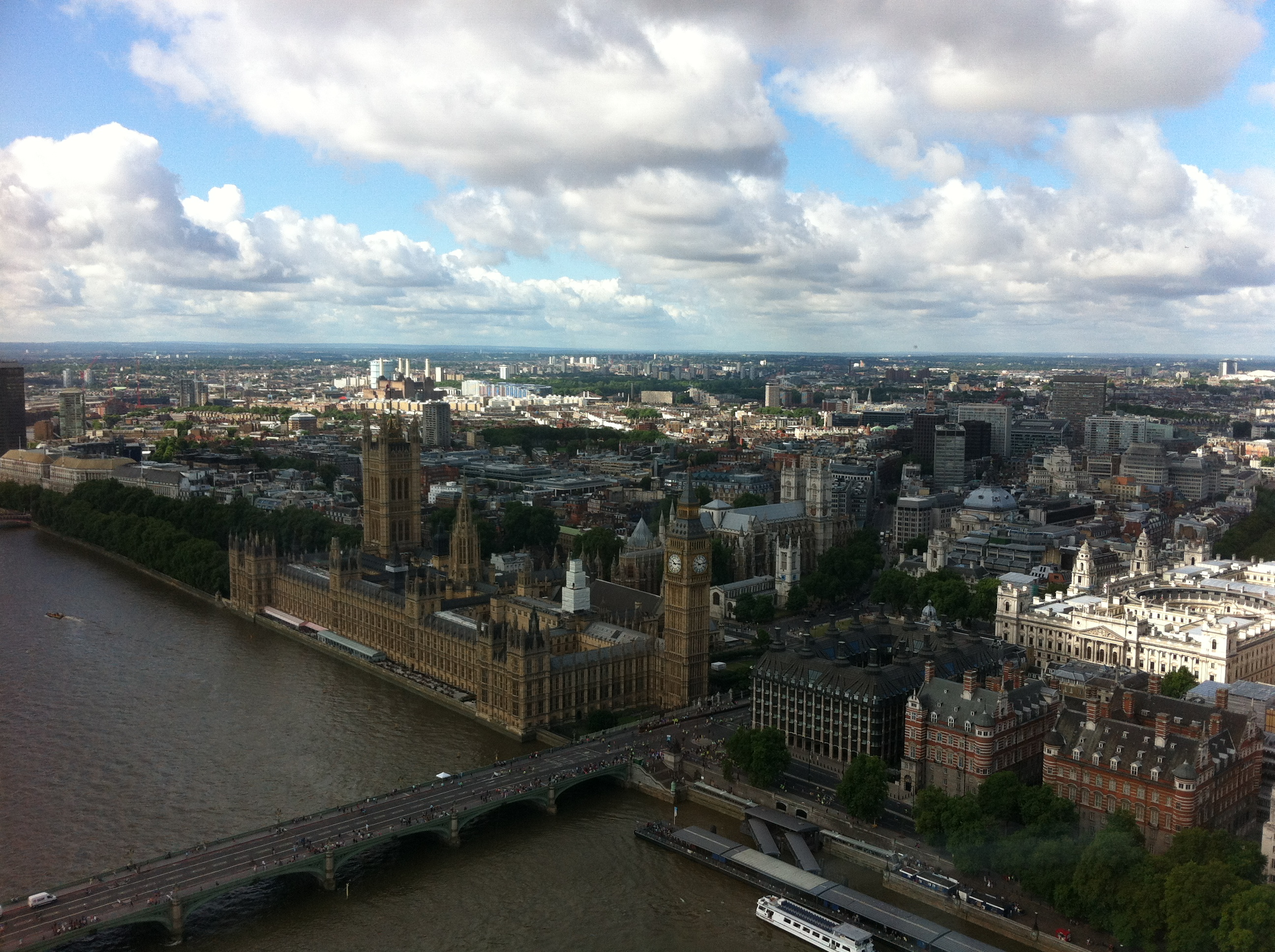 The Palace of Westminster and Westminster Bridge, as seen from the London Eye